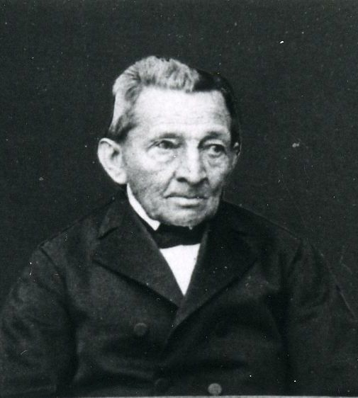 Hermann Sauppe (1809–1893), classical scholar, professor in Göttingen